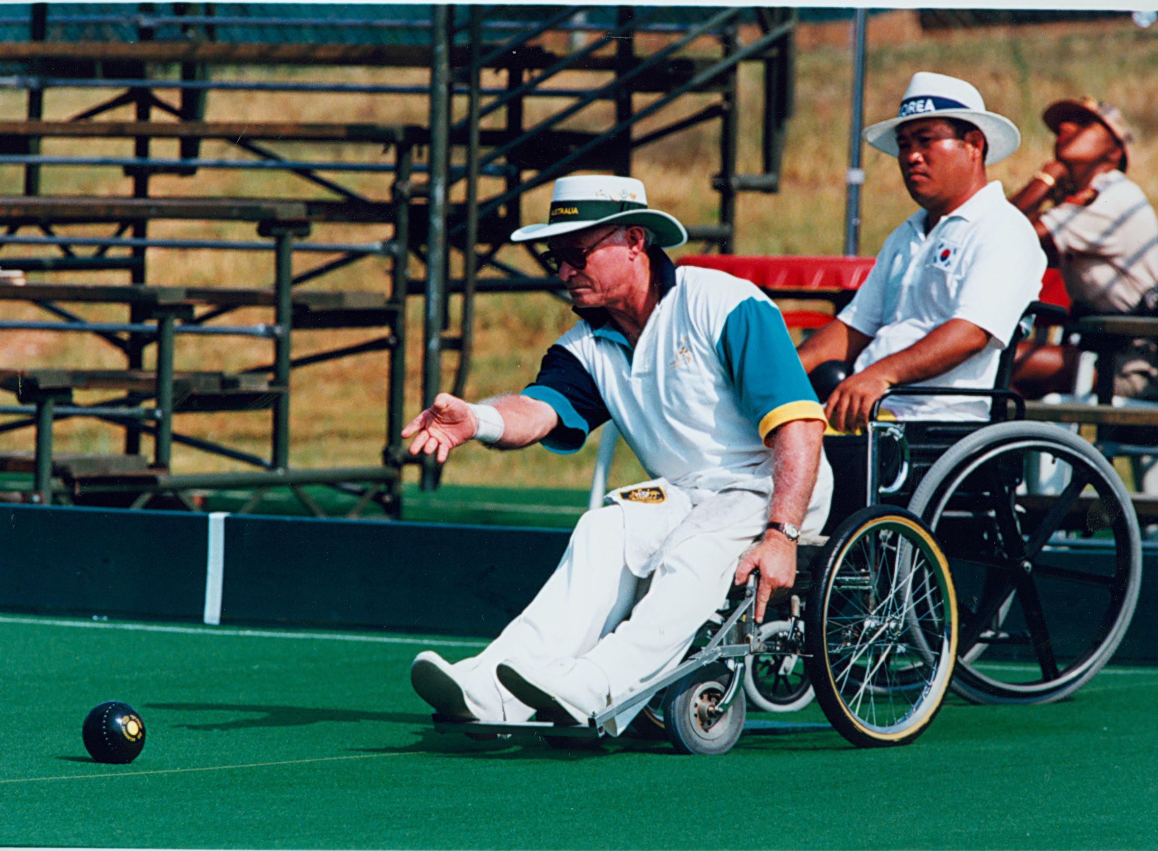 Australian paralympic lawn bowls competitor, Robert Tinker, at the Atlanta 1996 Paralympic Games.